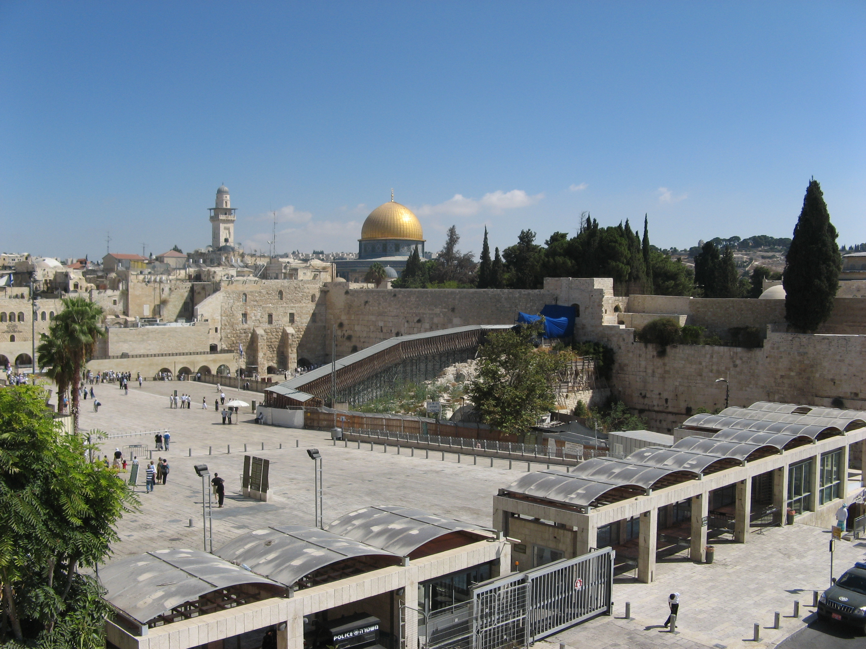 western wall square and its square, jerusalem